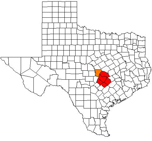 Map of Texas highlighting the Austin–Round Rock–Marble Falls Combined Statistical Area; created with the GIMP; made by User:Scottolini.